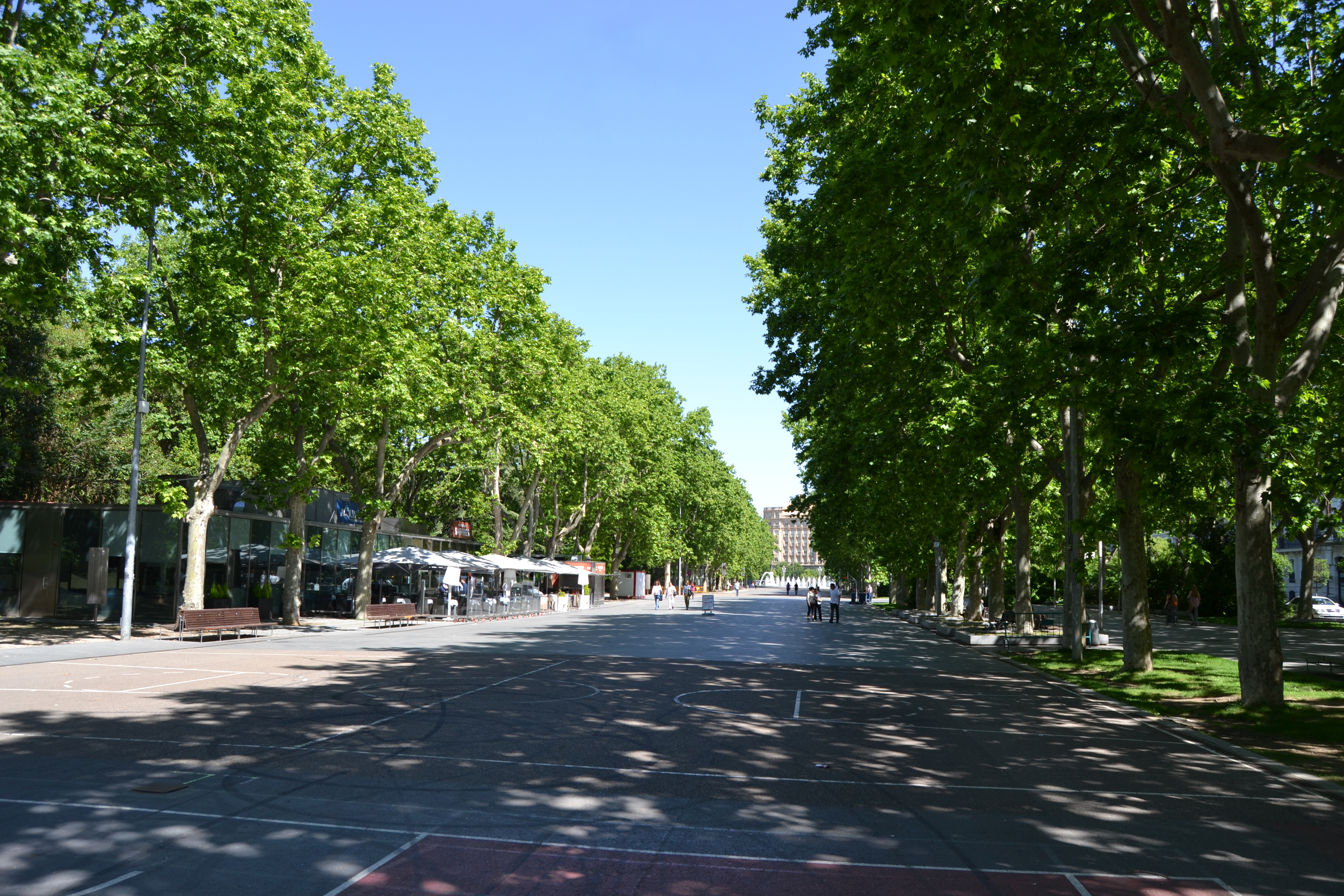 Valladolid, Spain